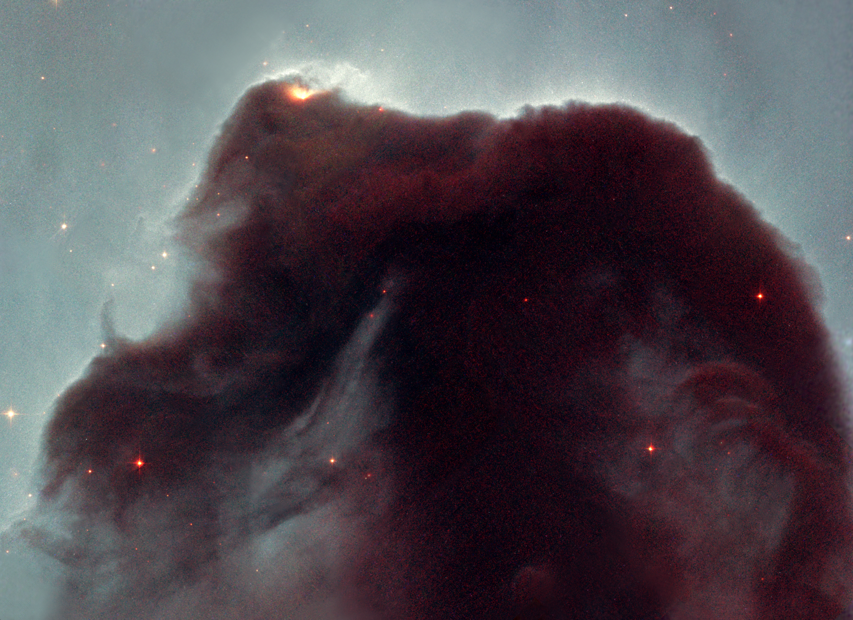 Rising from a sea of dust and gas like a giant seahorse, the Horsehead nebula is one of the most photographed objects in the sky. NASA/ESA Hubble Space Telescope took a close-up look at this heavenly icon, revealing the cloud's intricate structure. The Horsehead, also known as Barnard 33, is a cold, dark cloud of gas and dust, silhouetted against the bright nebula, IC 434. The bright area at the top left edge is a young star still embedded in its nursery of gas and dust. But radiation from this hot star is eroding the stellar nursery. The top of the nebula also is being sculpted by radiation from a massive star located out of Hubble's field of view.